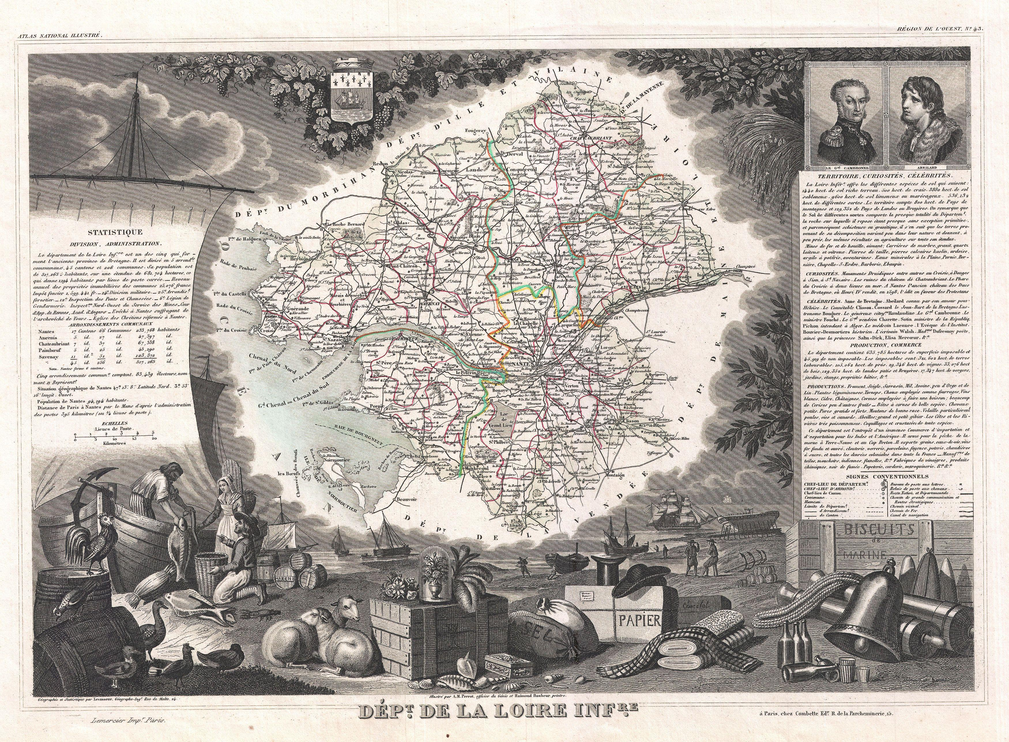 This is a fascinating 1852 map of the French department of Loire Inferieure, France (currently known as Loire-Atlantique.) This area of France is part of the Loire Valley wine region, and is especially known for its production of Muscadet, a white wine produced from the Melon de Bourgogne grape variety. This area is also famous for a variety of cow’s milk cheese known as Fromage du Curé Nantais. The map proper is surrounded by elaborate decorative engravings designed to illustrate both the natural beauty and trade richness of the land. There is a short textual history of the regions depicted on both the left and right sides of the map. Published by V. Levasseur in the 1852 edition of his Atlas National de la France Illustree.